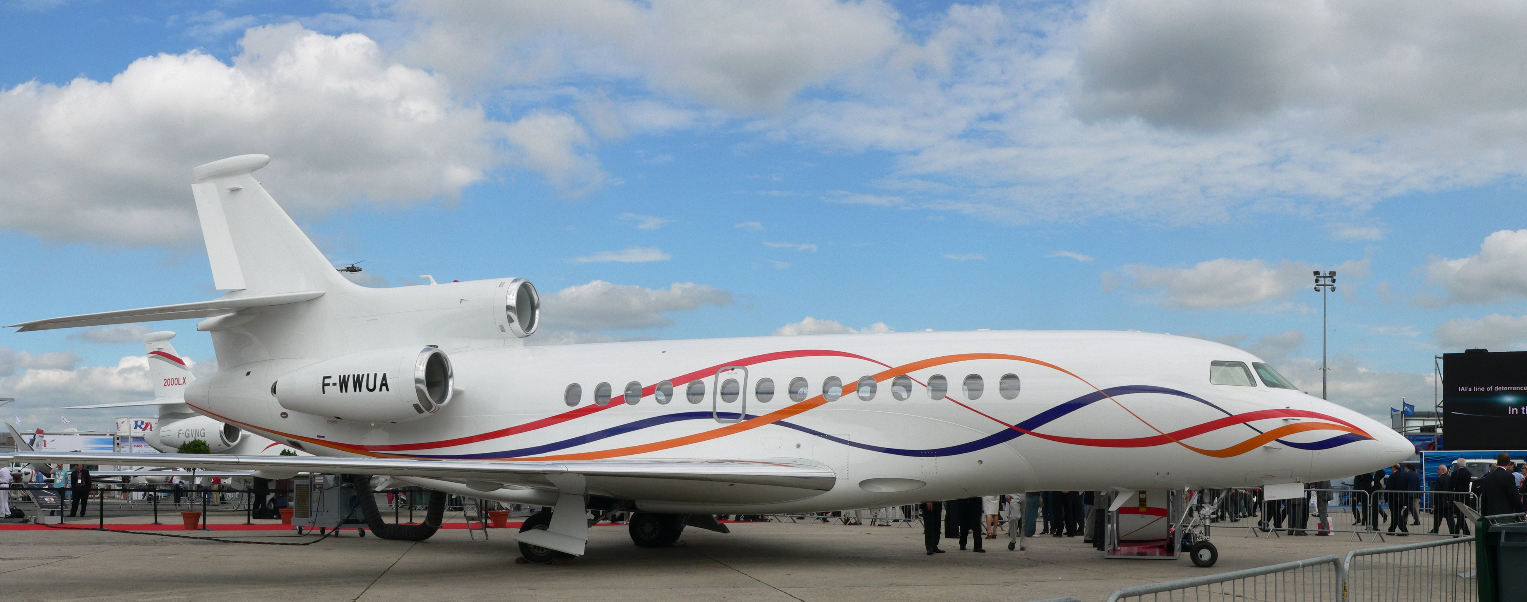 Dassault Falcon 7X at Paris Air Show 2007.